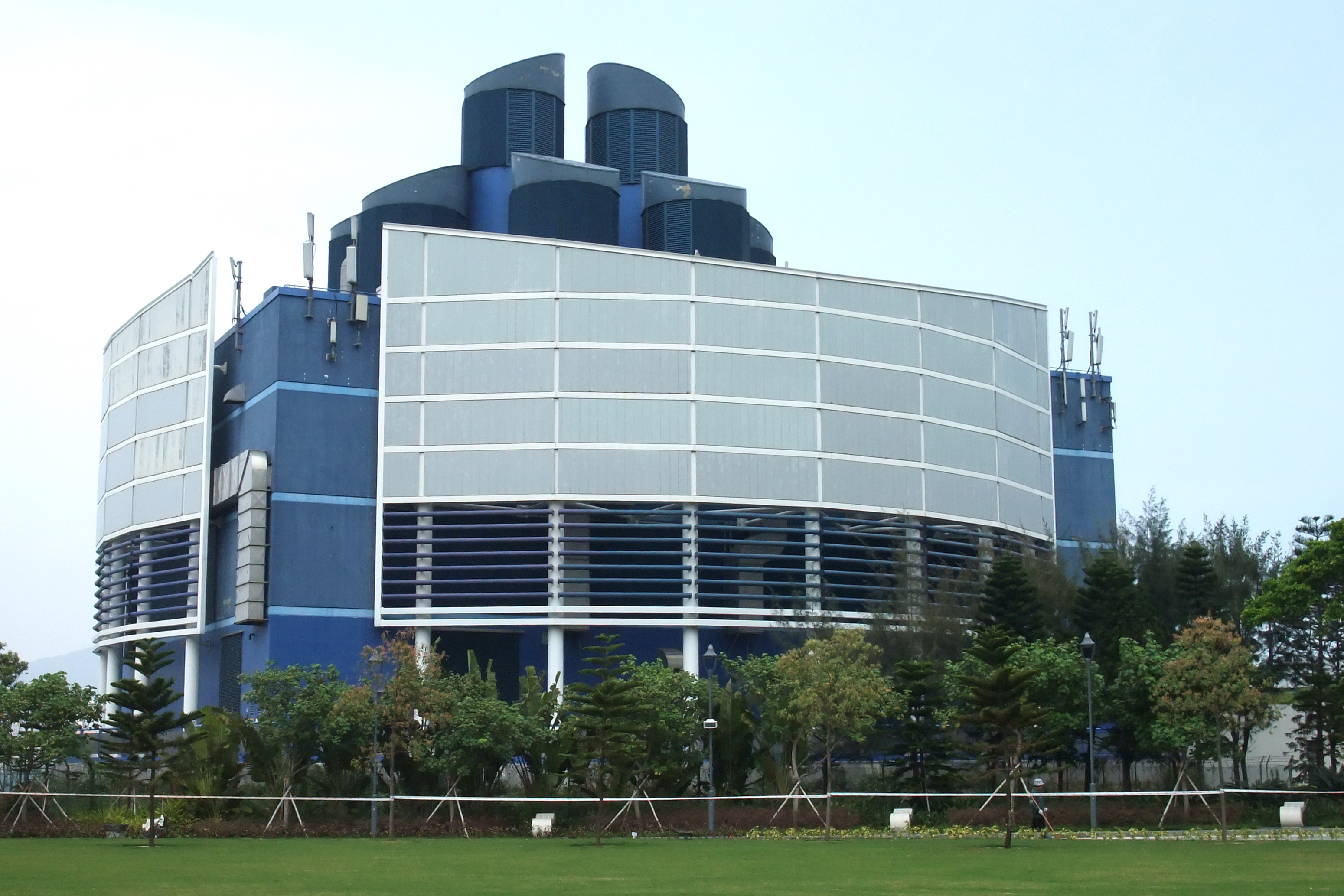 Western Harbour Crossing Ventilation Building, Hong Kong.